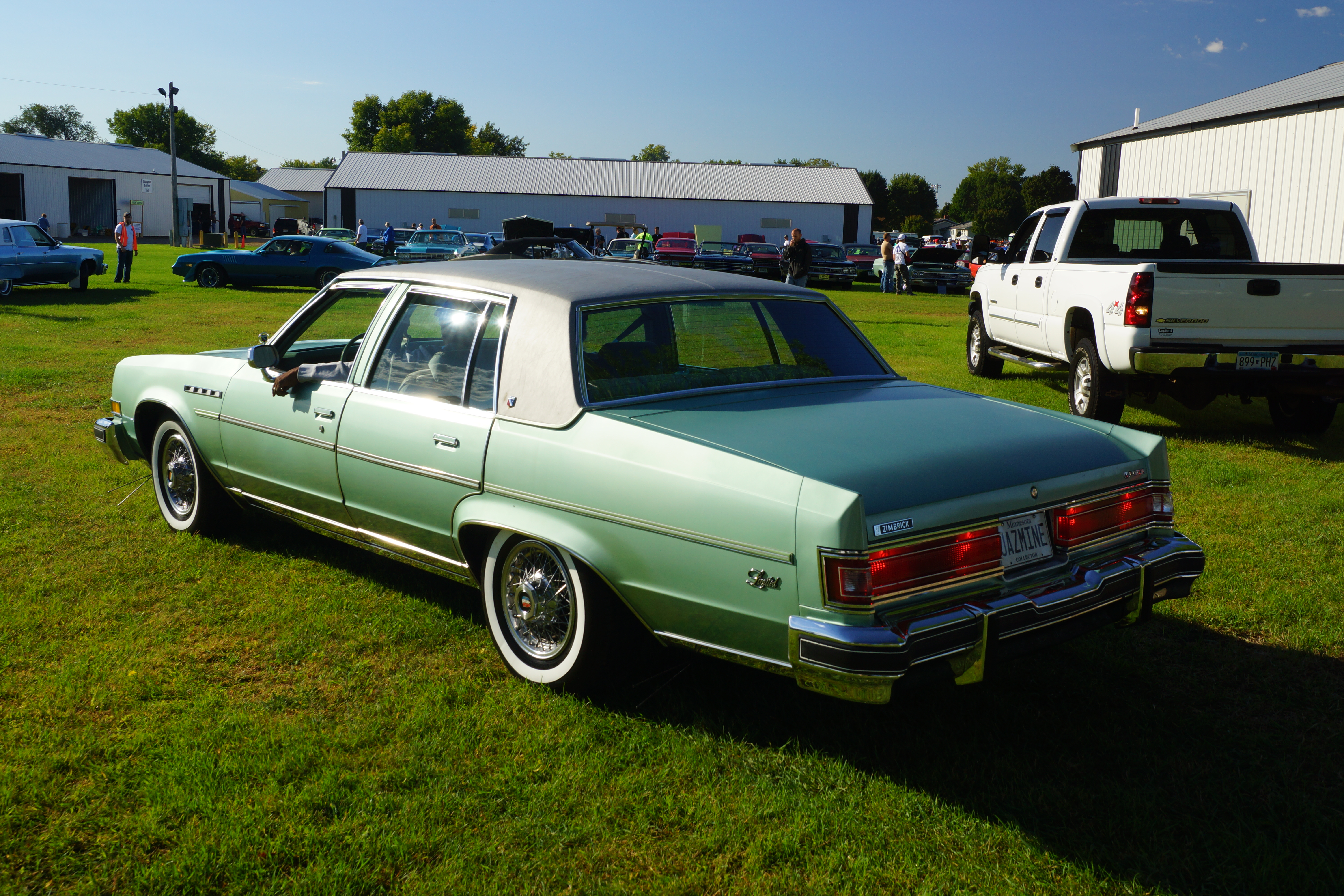 Auto Restorers Club of Southern Minnesota 40th Annual Car Show & Swap Meet Nicollet County Fairgrounds St. Peter, Minnesota September 2016